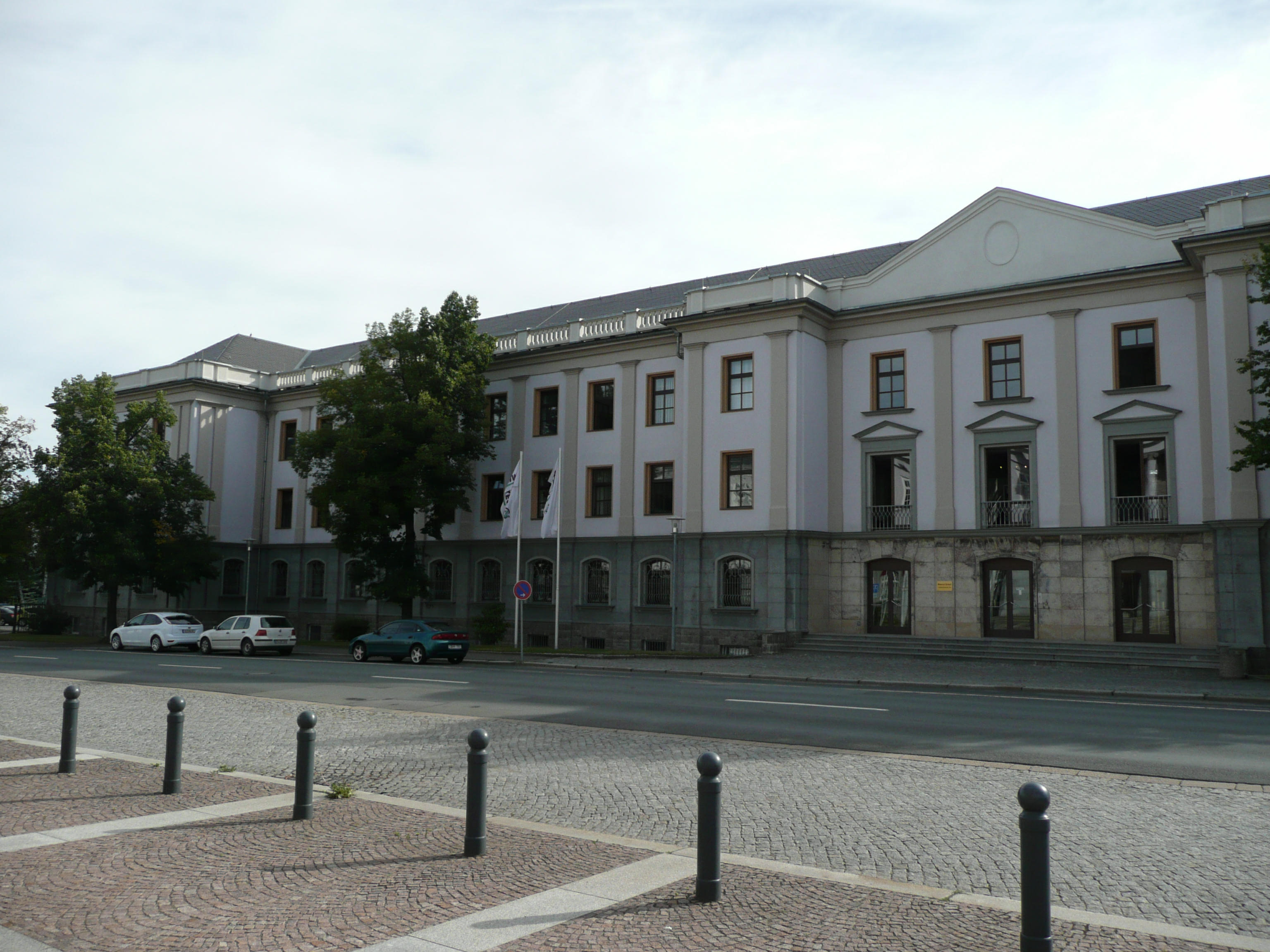 This image shows the head office of the Wismut GmbH in Chemnitz. Its principal business is the decommissioning, cleanup, and rehabilitation of uranium mining and processing sites. The company was the world third biggest uranium mining company from 1946 to 1990.